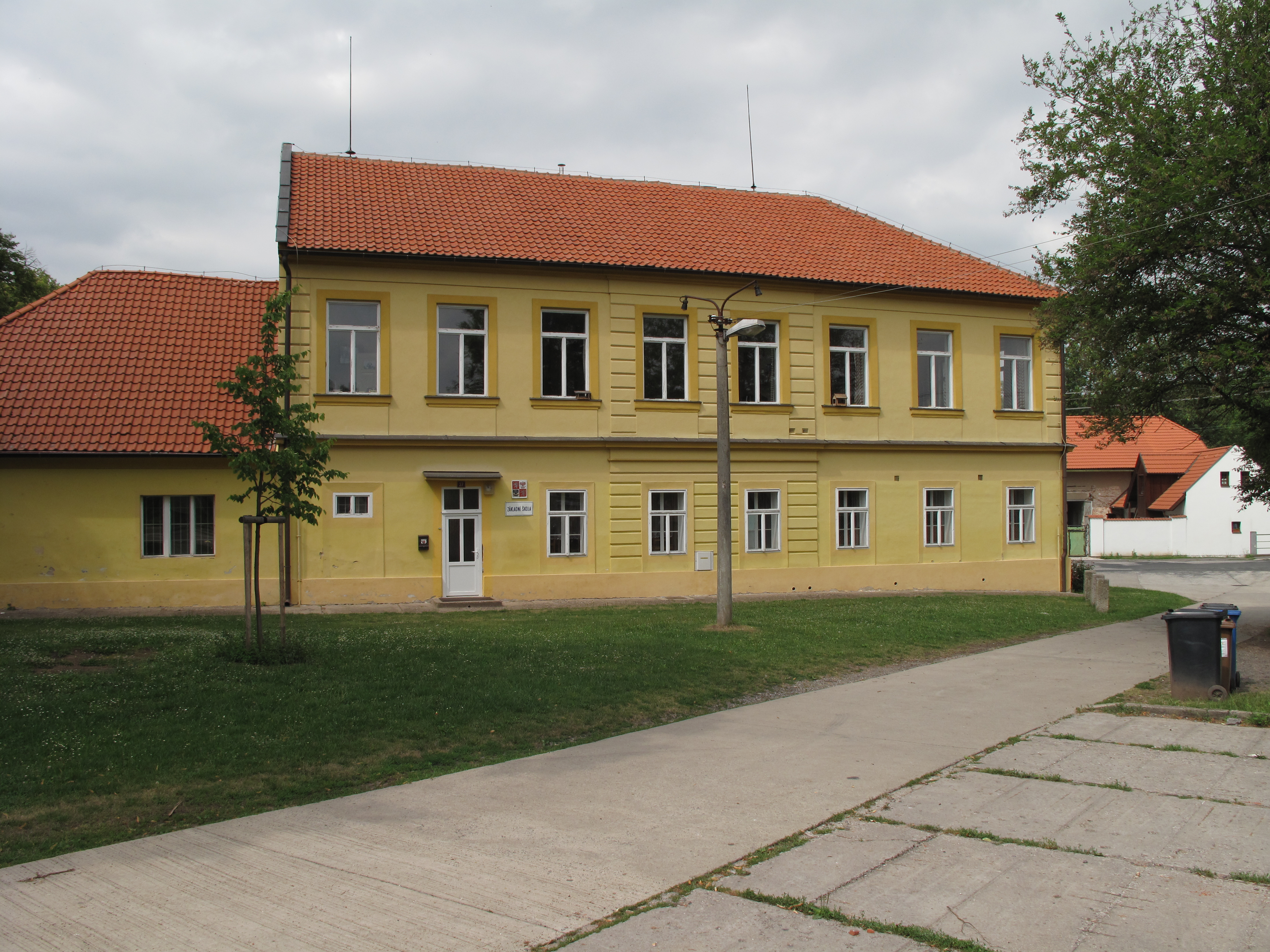 This photograph was taken within the scope of the second year of the 'Czech Municipalities Photographs' grant.